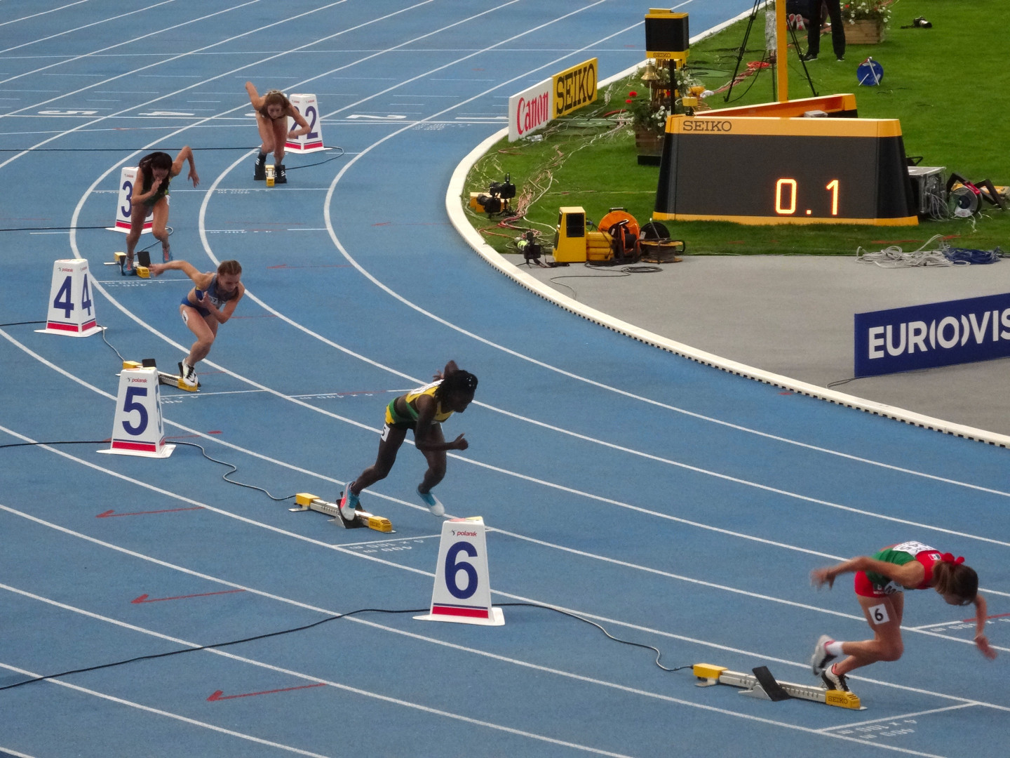 2016 IAAF World U20 Championships in Bydgoszcz, 400m women semi-final